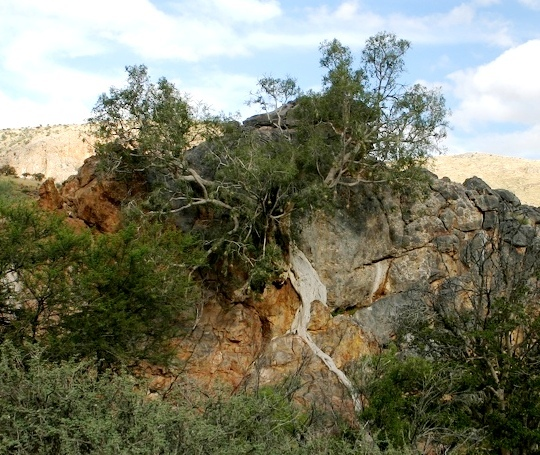 Ficus ilicina, Naukluft Mountains